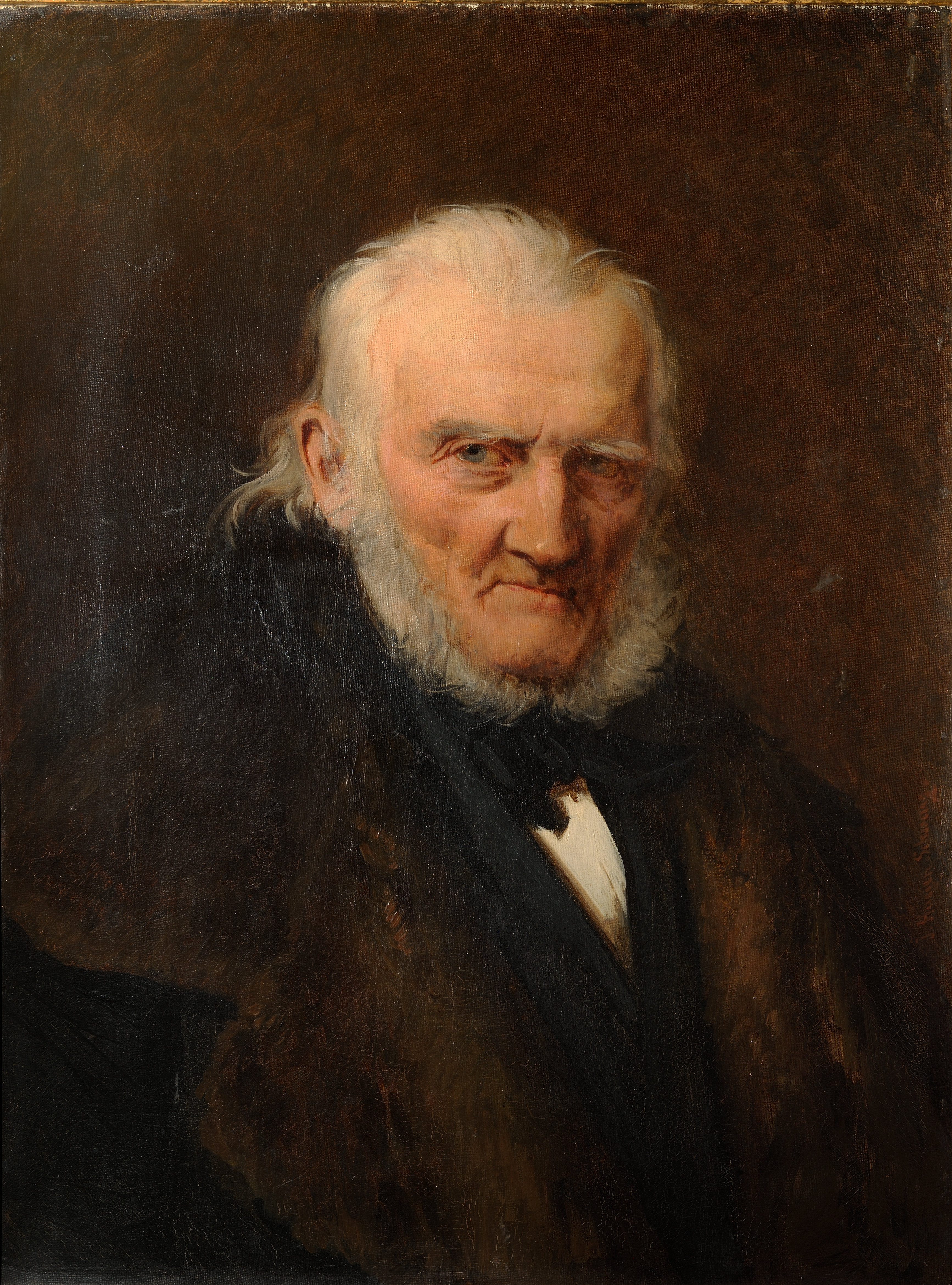 Hagen-Schwarz, Julie. Portrait of Artist August Hagen. Tartu Art Museum